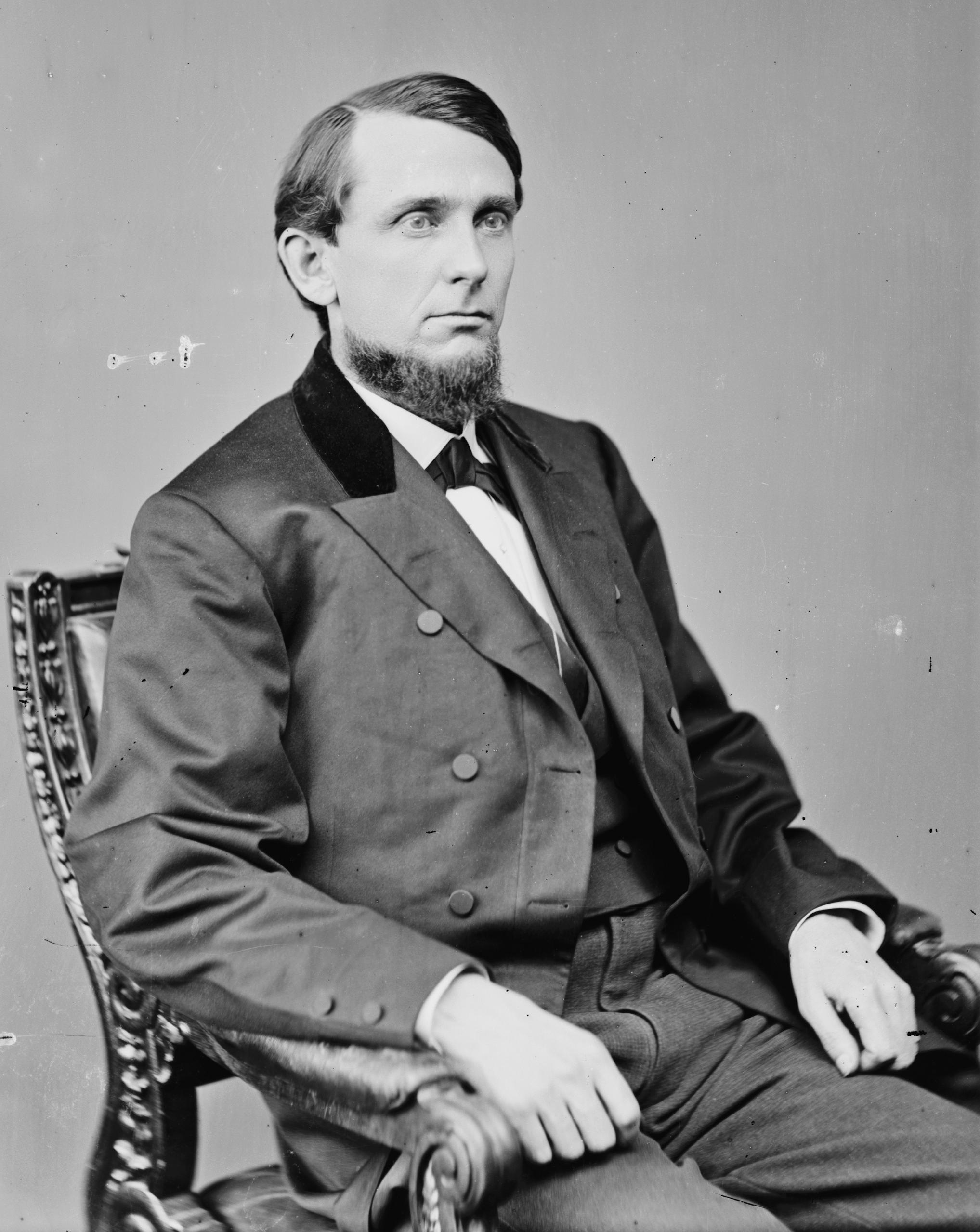 Ira B. Hyde. Library of Congress description: "Hyde, hon. Ira B. Rep of Mo. Pvt. Co. F. 1st Minn. Mounted Rangers against Sioux Indians".